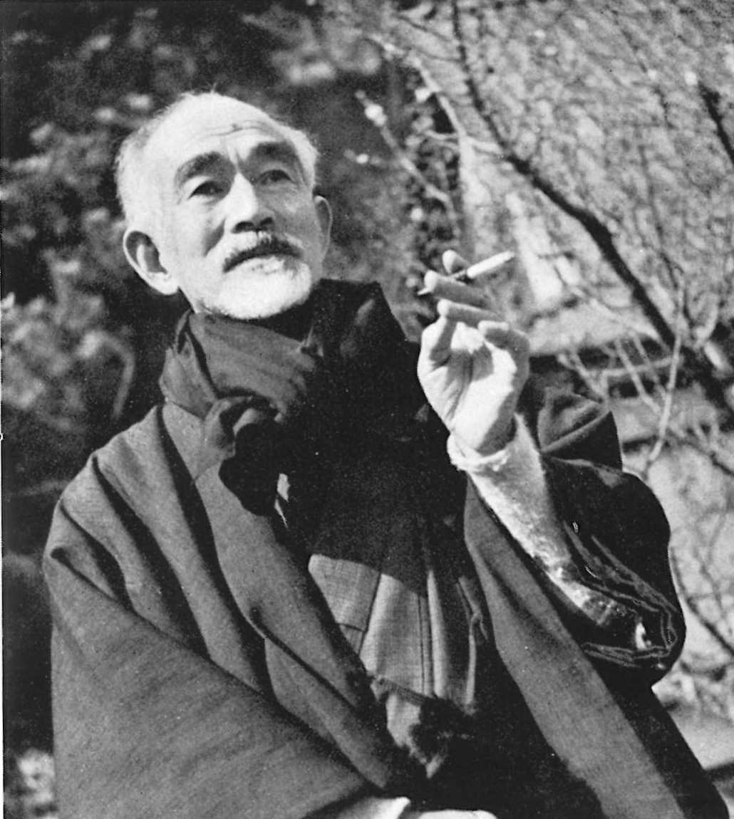 Naoya Shiga